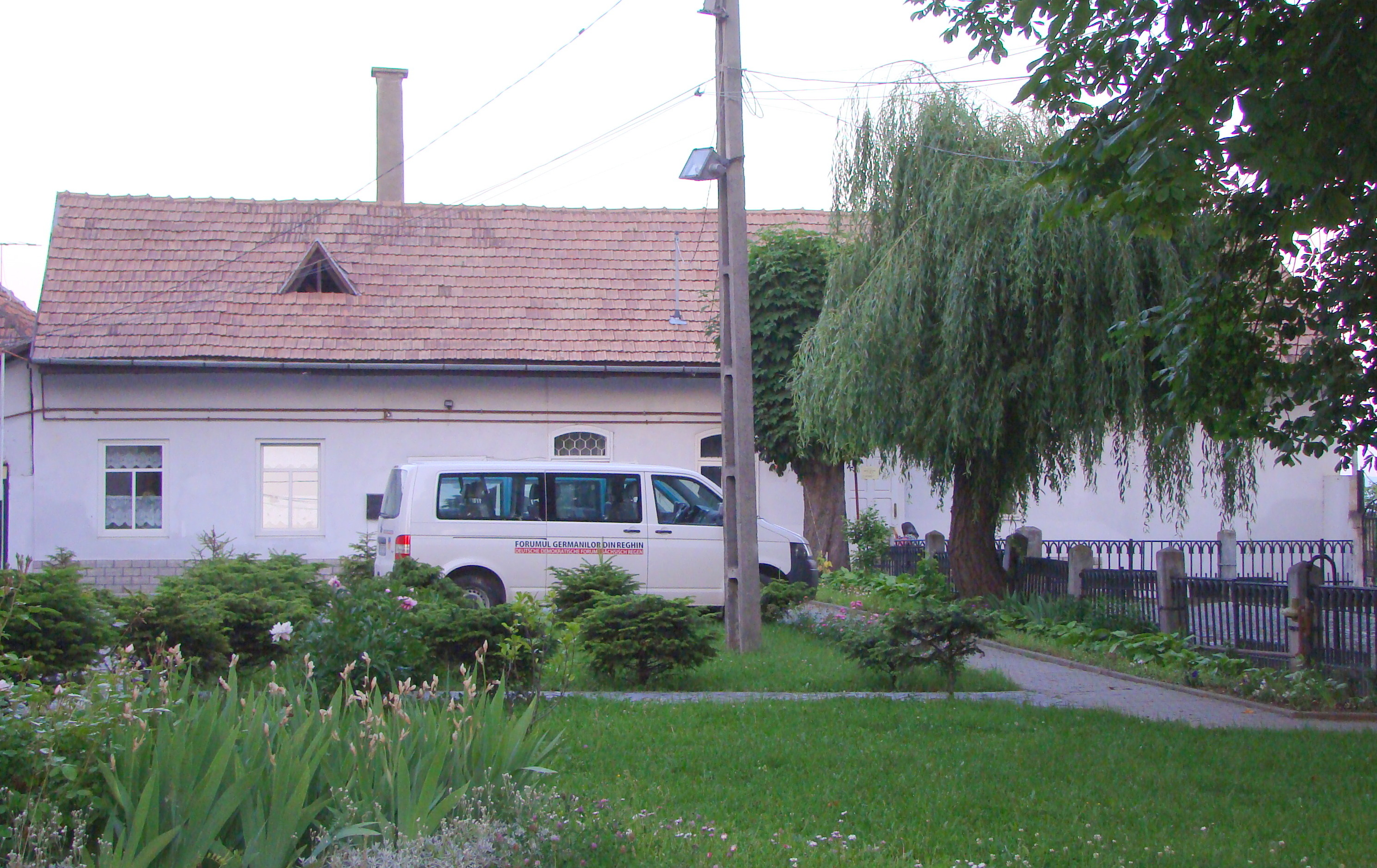 Parish house of the lutheran church in Reghin, Mureş county, Romania 02